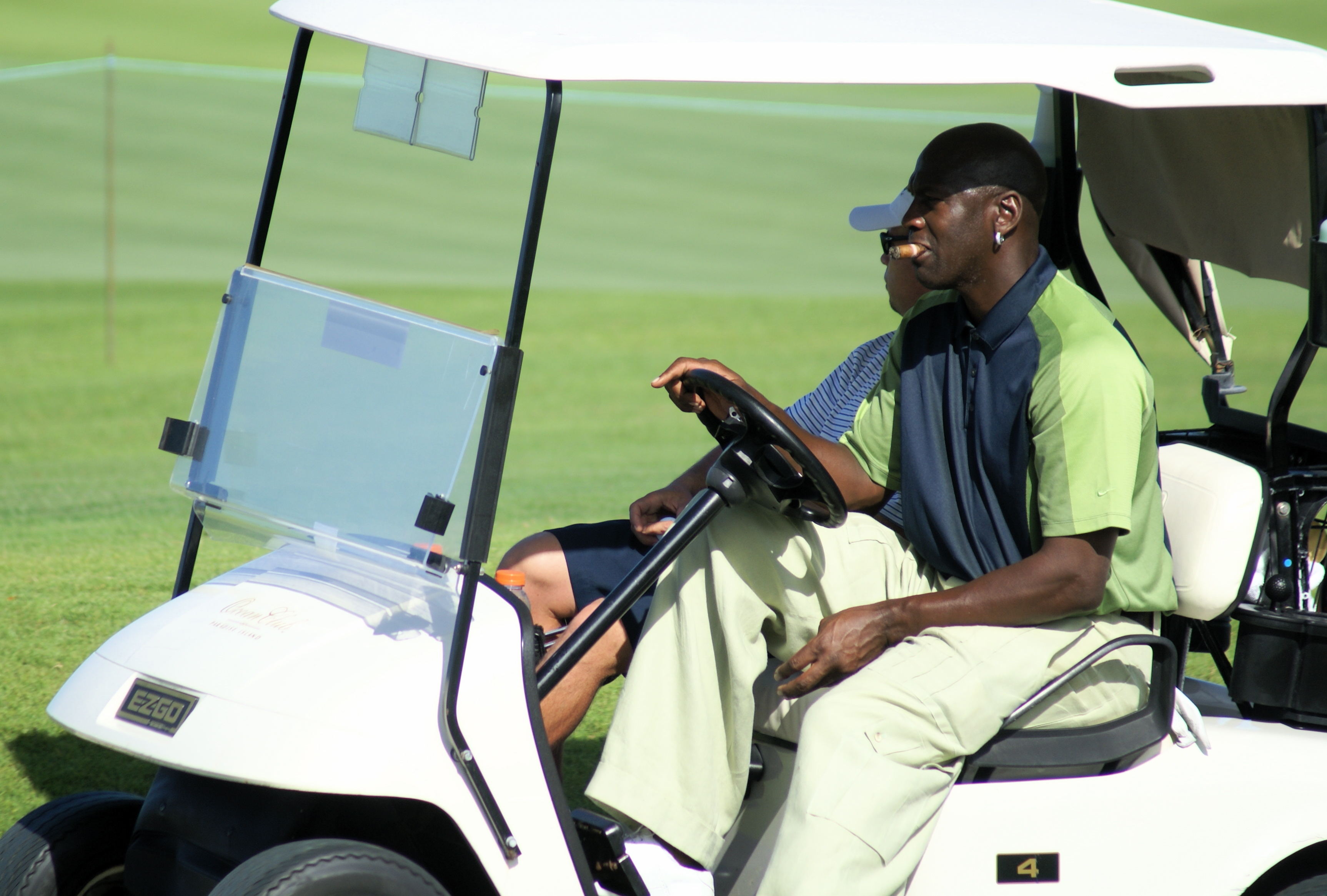 Michael Jordan on the golf course in 2007.